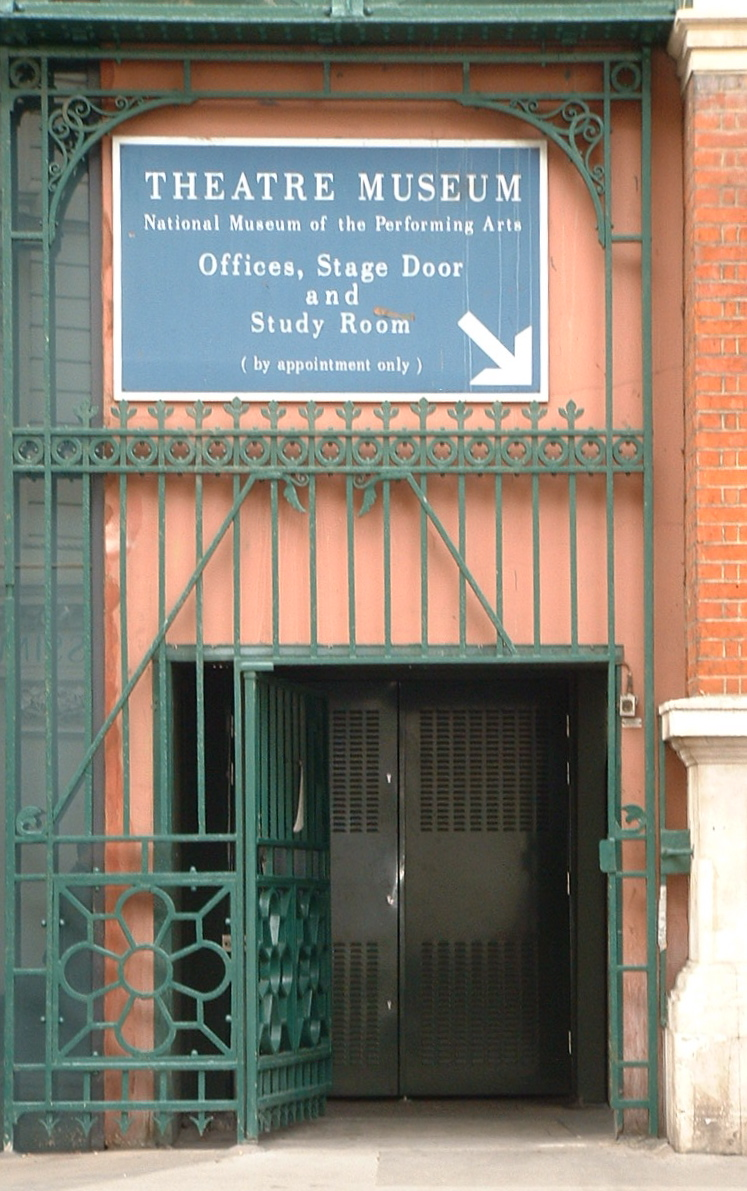 Stage door of the former Theatre Museum, Covent Garden